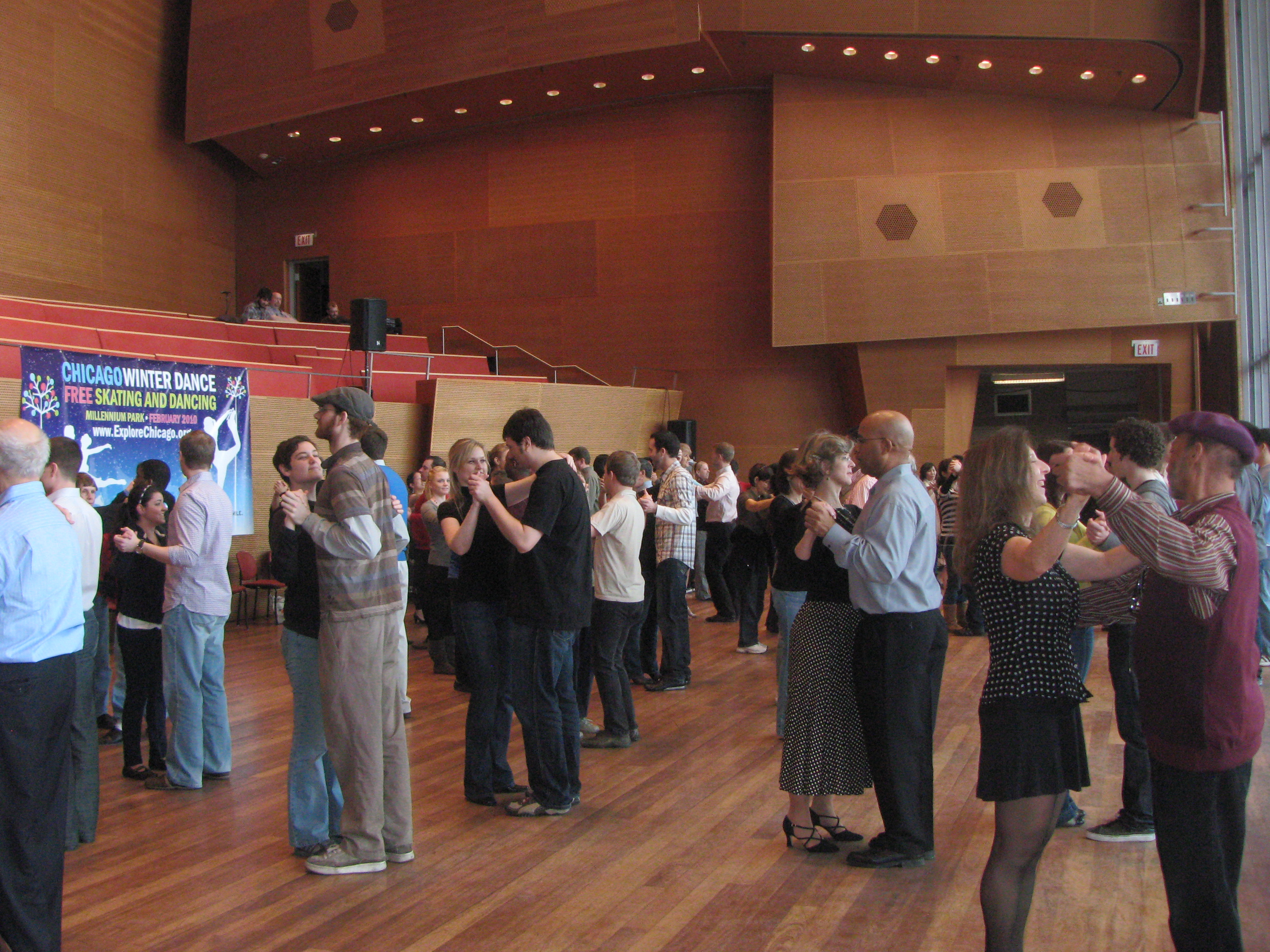 Chicago Winter Dance 2010 at the Jay Pritzker Pavilion